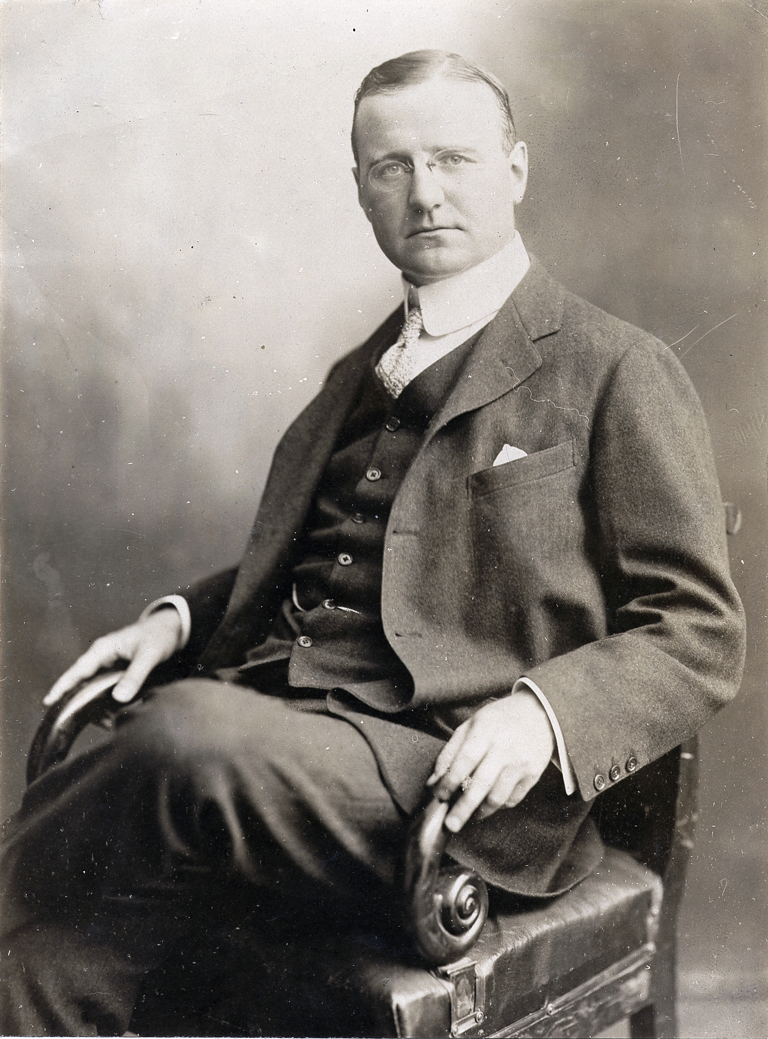 Finley Peter Dunne, American humorist